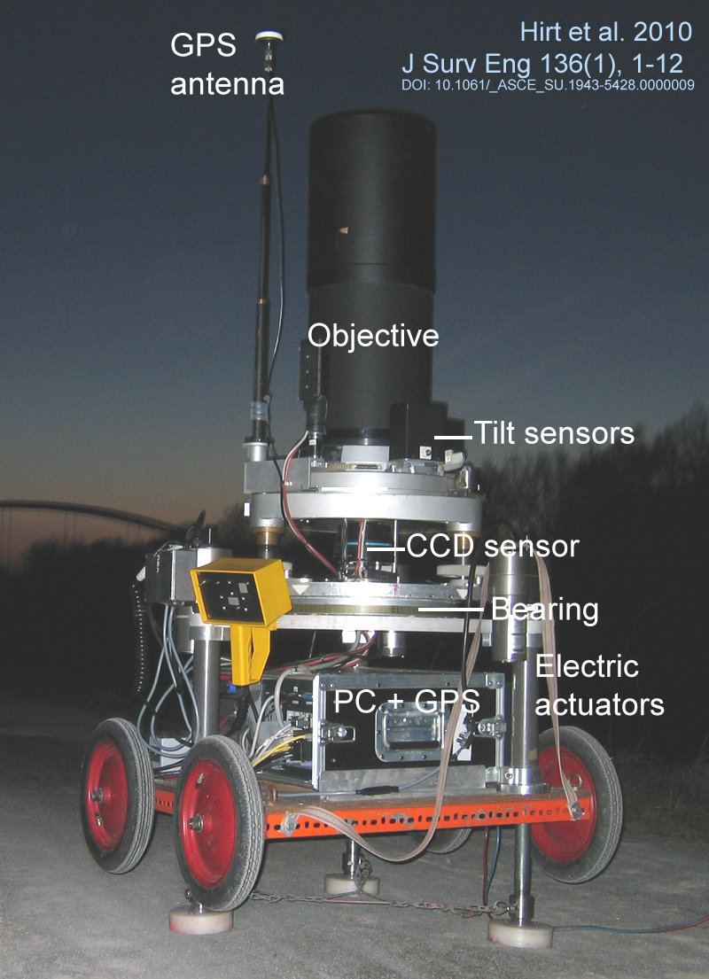 Digital zenith camera system, developed at University of Hannover